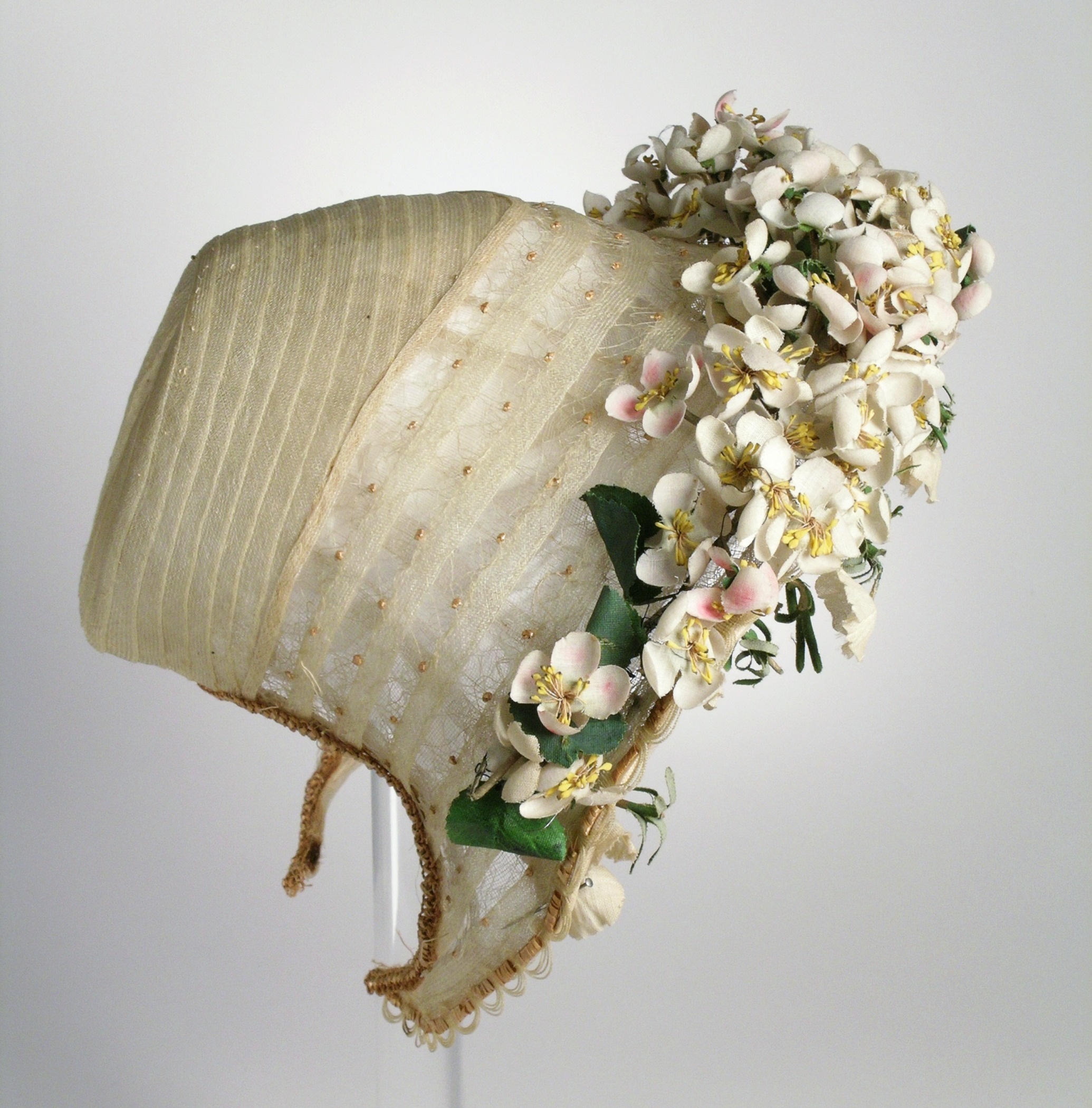 United States, Pennsylvania, Philadelphia, circa 1863 Costumes; Accessories Horsehair braid Gift of Mrs. Margaret Elm Bryner (41.11.22) Costume and Textiles